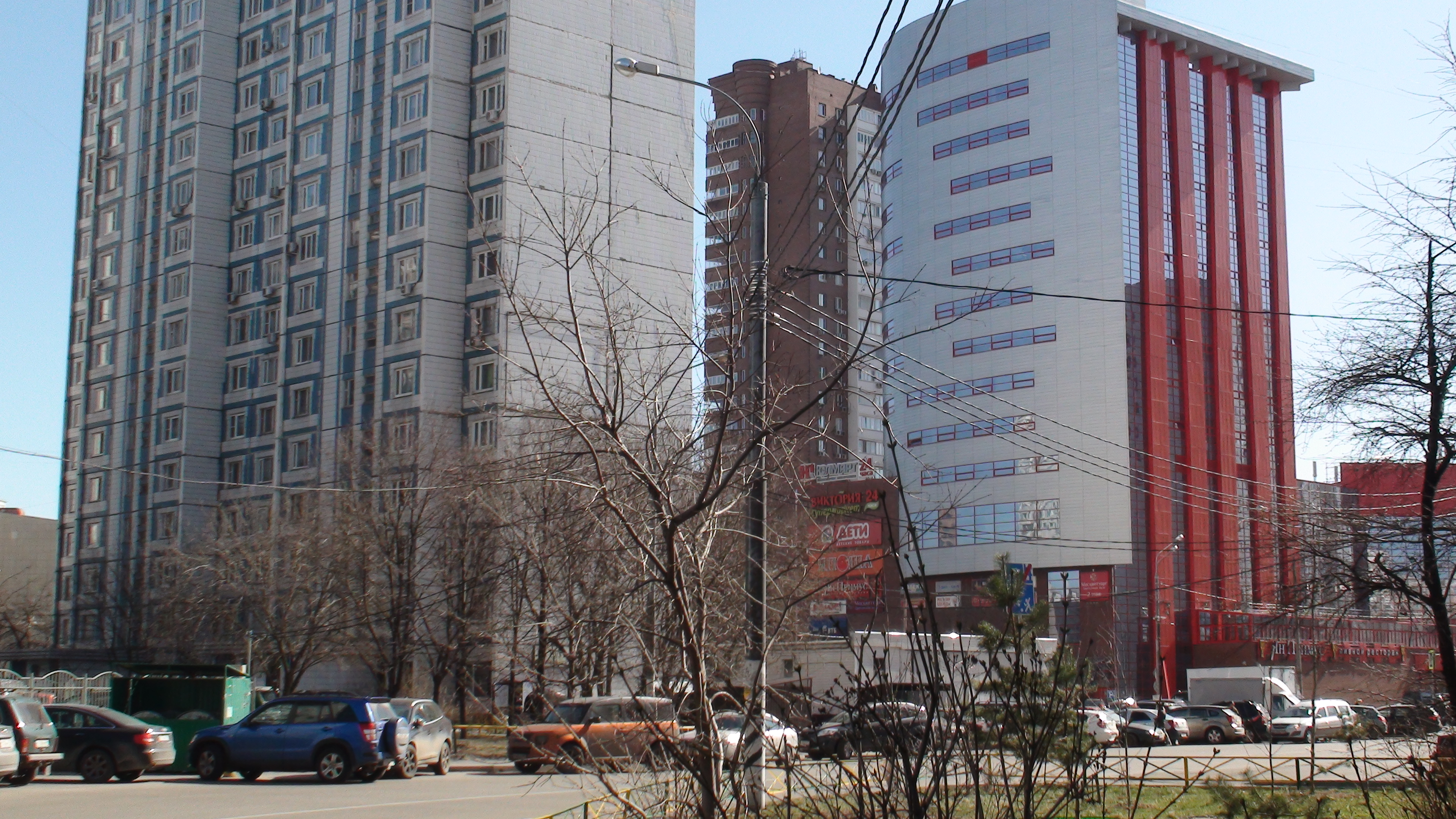 Москва ул. Снежная